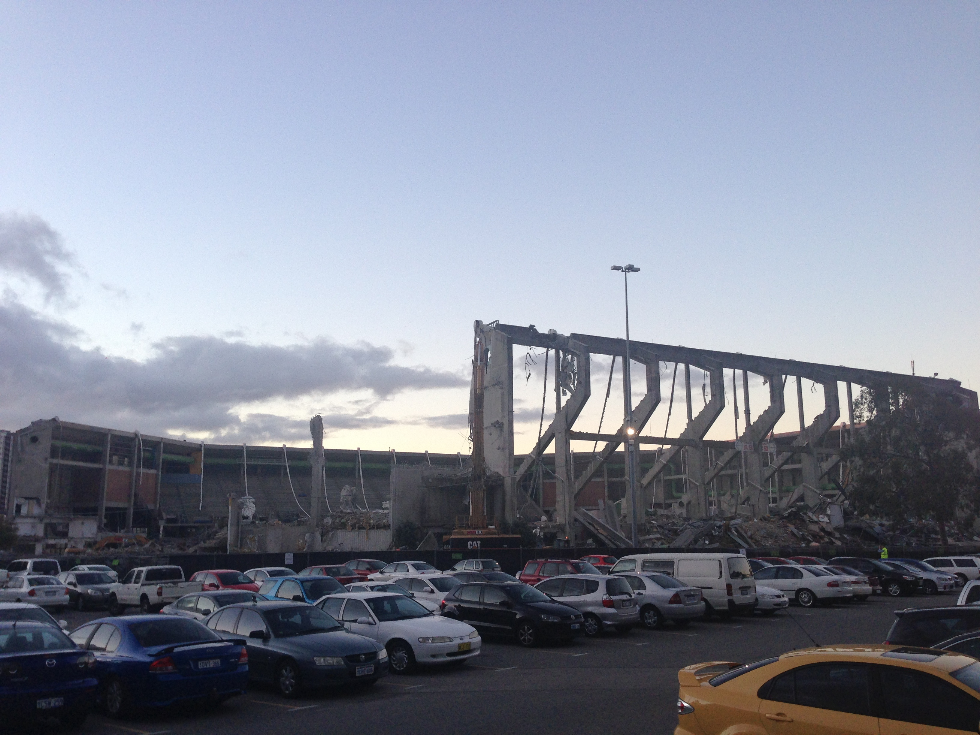 Demolition of the Dome at Crown Burswood.